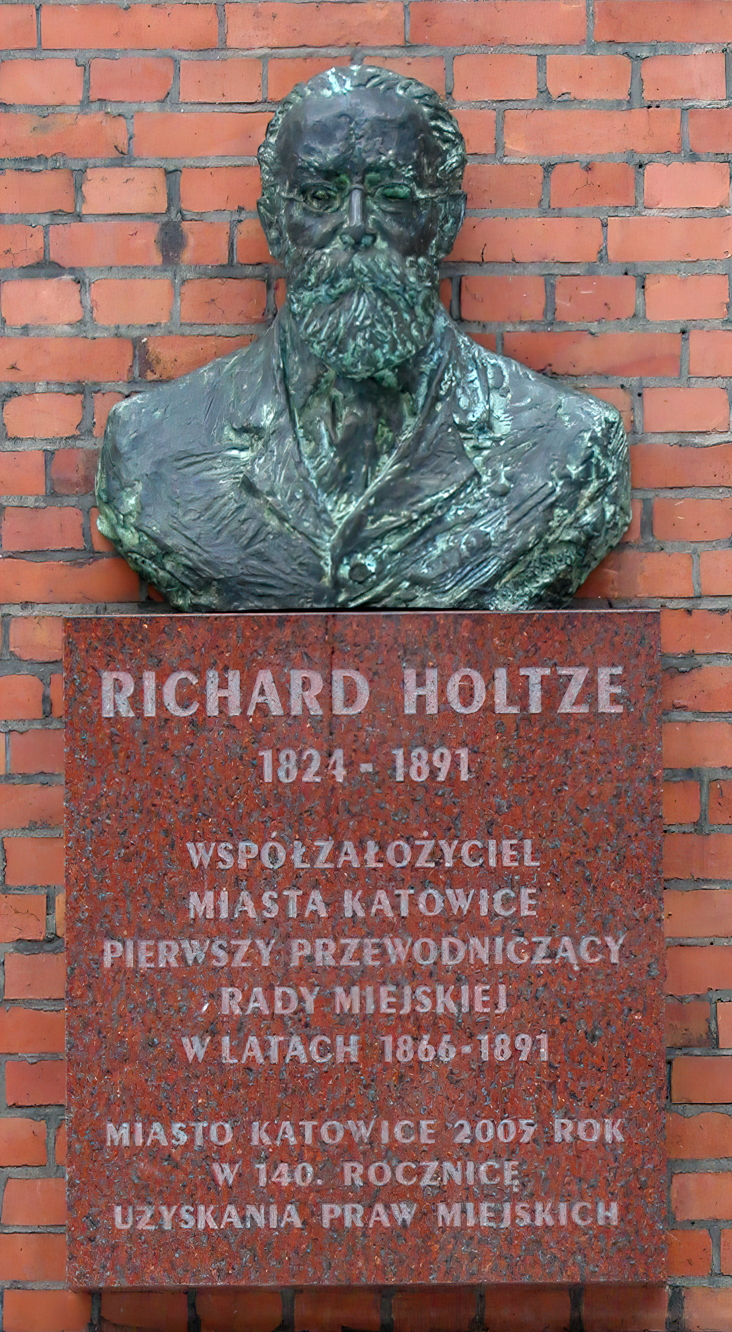 Bust of Richard Holtze – one of the founders of the city of Katowice – by sculptor Bogumił Burzyński